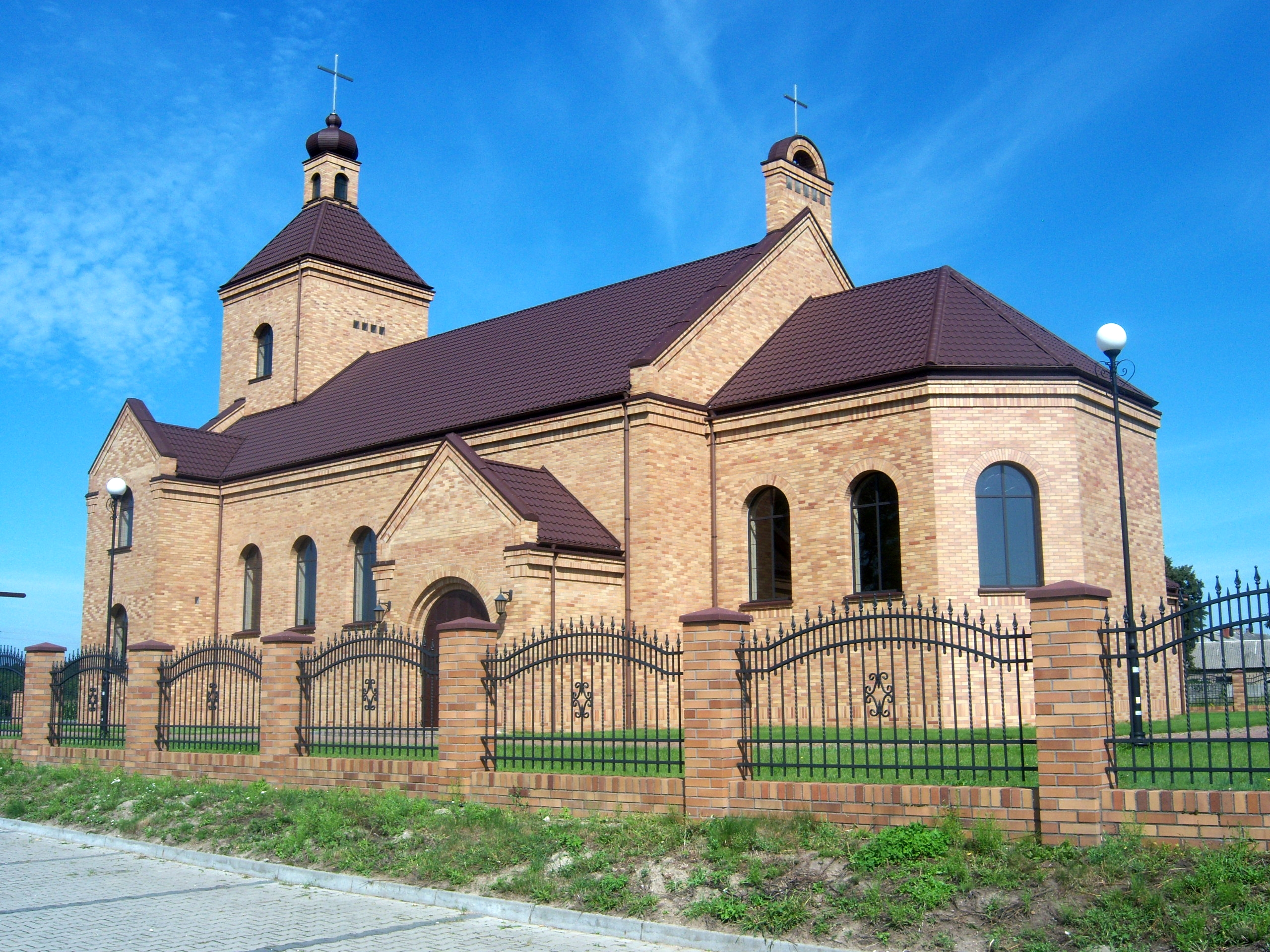 Pairsh church of St. James the Apostle in Dobrosołowo